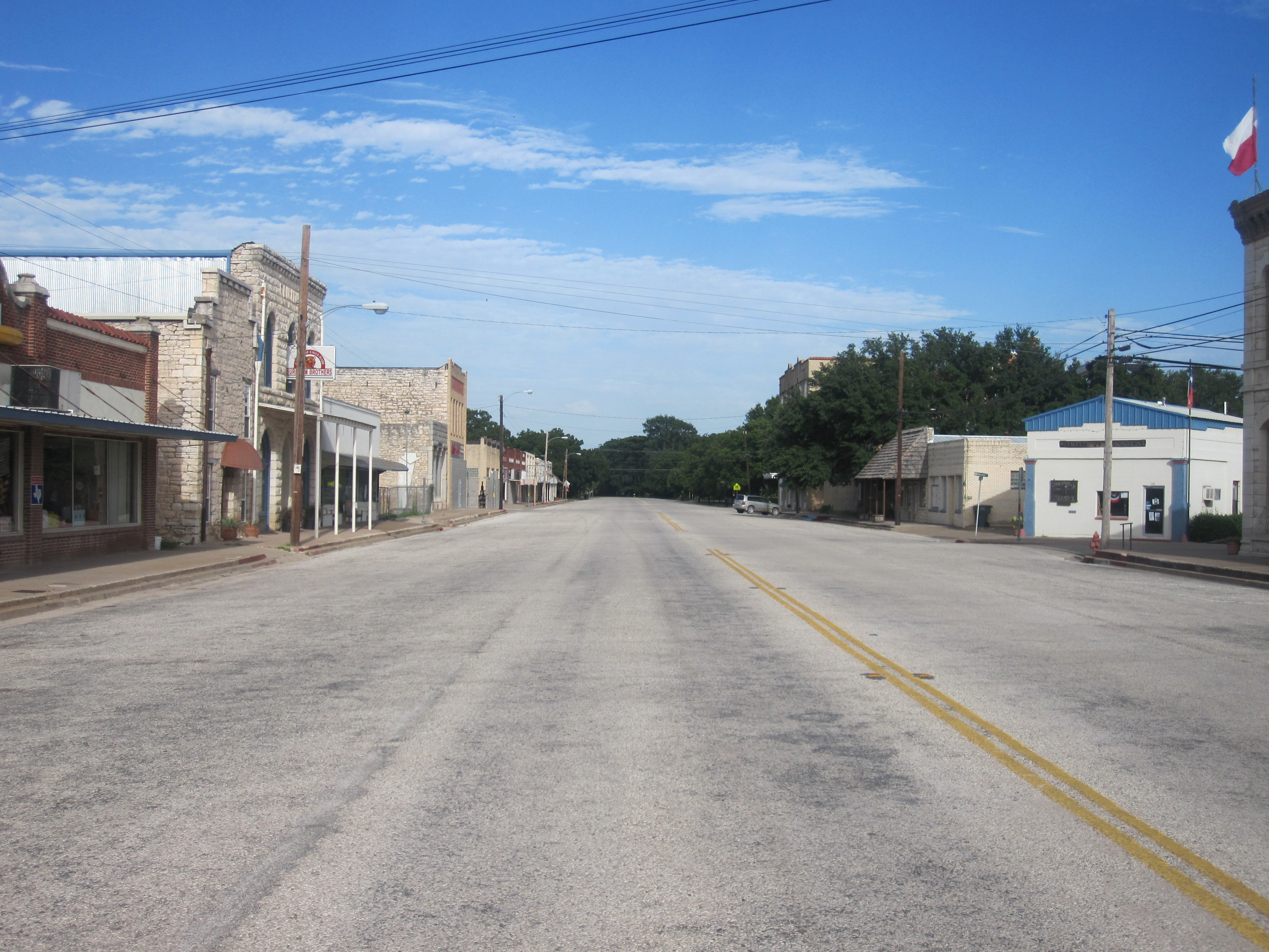 I took photo with Canon camera in Menard, TX.